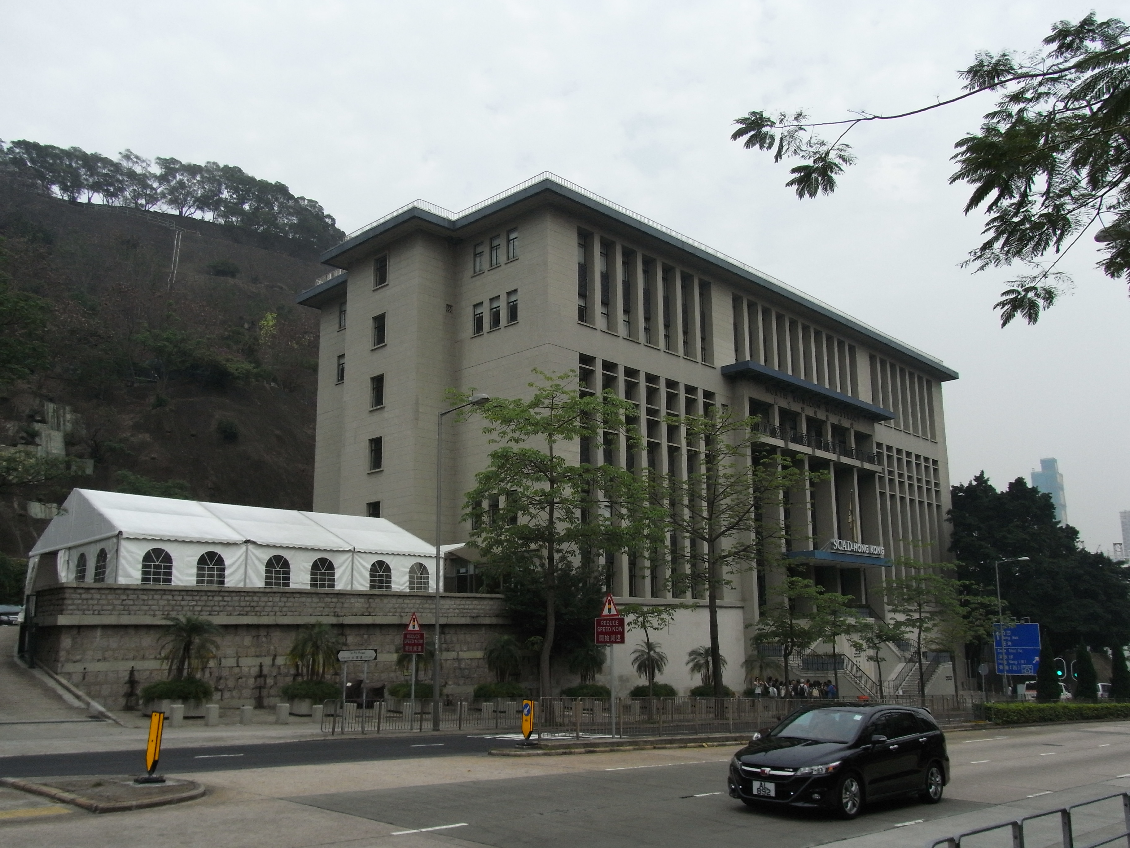 HK 薩凡納藝術設計學院, SCAD Hong Kong campus, no. 292 Tai Po Road, Sham Shui Po District, Hong Kong